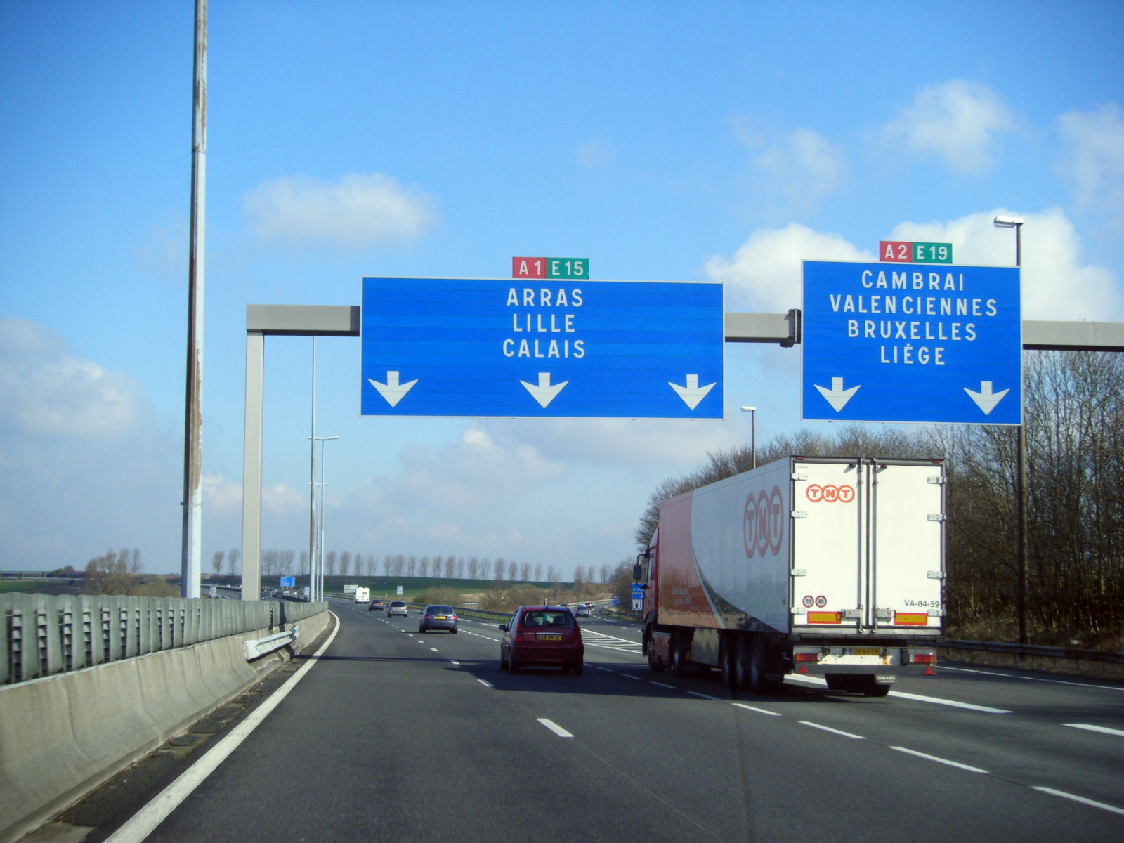 Directional Sign on the A1/E15 at the junction with A2/E19 south of Lille, France